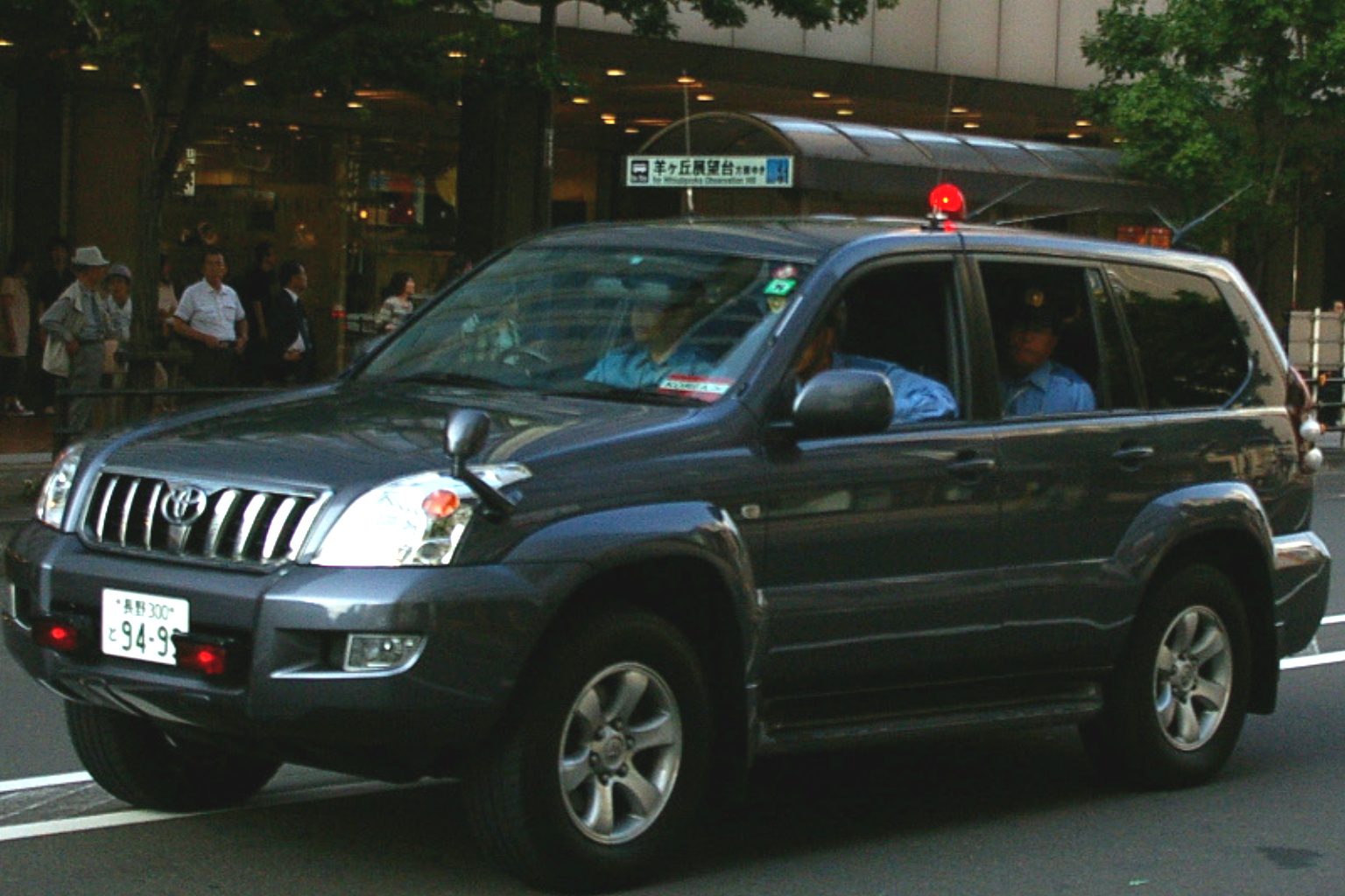 TOYOTA Landcruise PRADO Security Police.